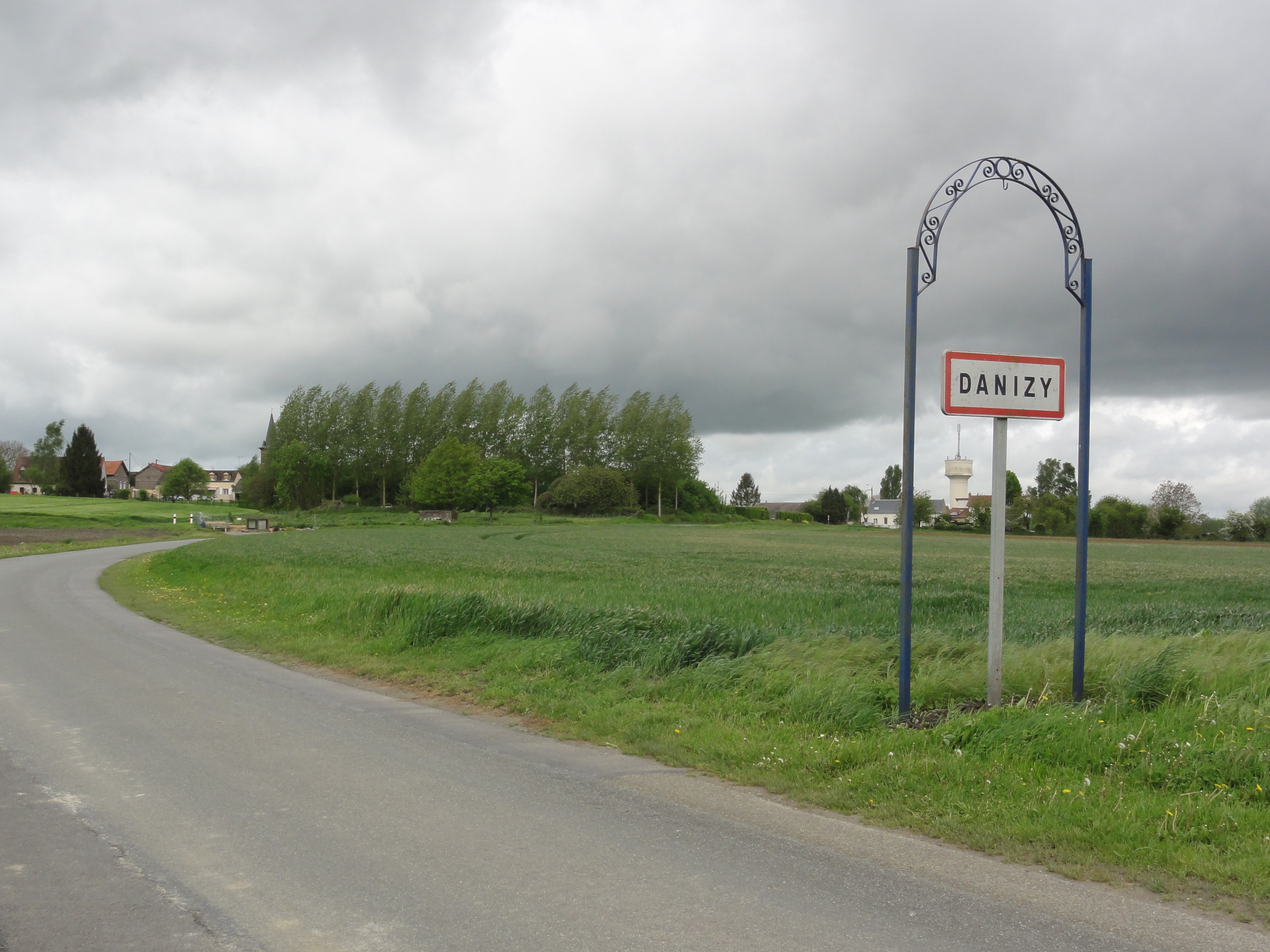 Danizy (Aisne) city limit sign